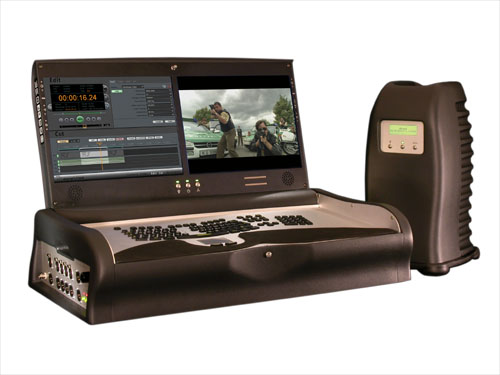 With the hard disc recorder the camera signal could be recorded and instantly examined (uncompressed HDTV, YCbCr 4:2:2, RGB 4:4:4).